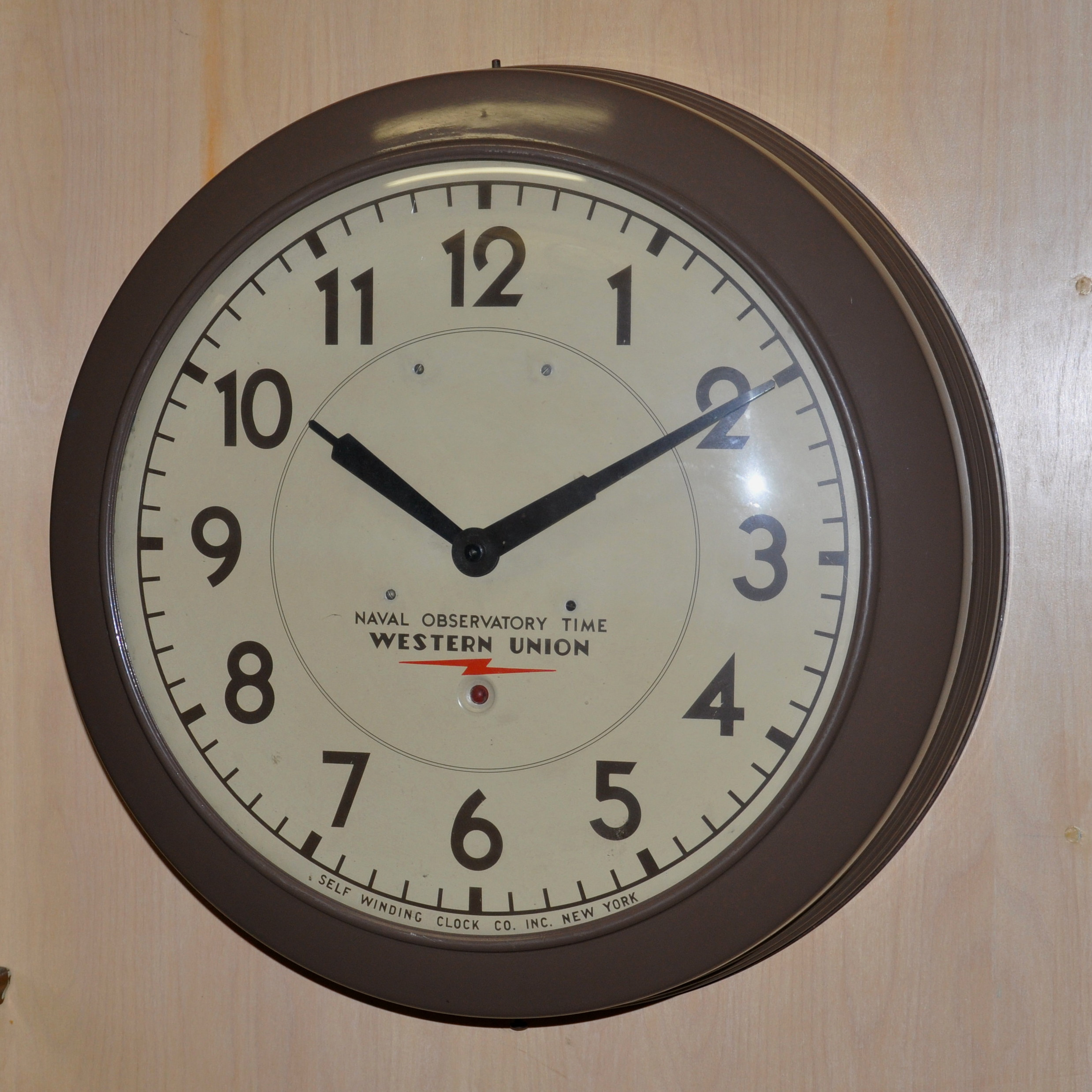 Western Union rental clocks of this type usually have a light below the WU name that is illuminated when the clock receives the hourly synchronizing signal. This signal was transmitted to the clock over a telegraph line by a WU master clock.